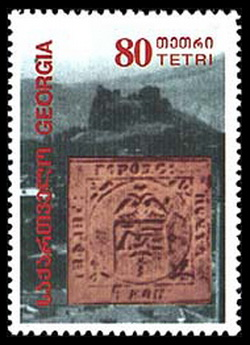 Stamp of Georgia "140 years to Tiflissky stamp", 1997